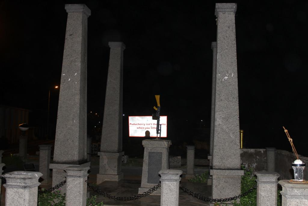 War memorial near MK Gandhi Beach, Beach Road, Pondicherry